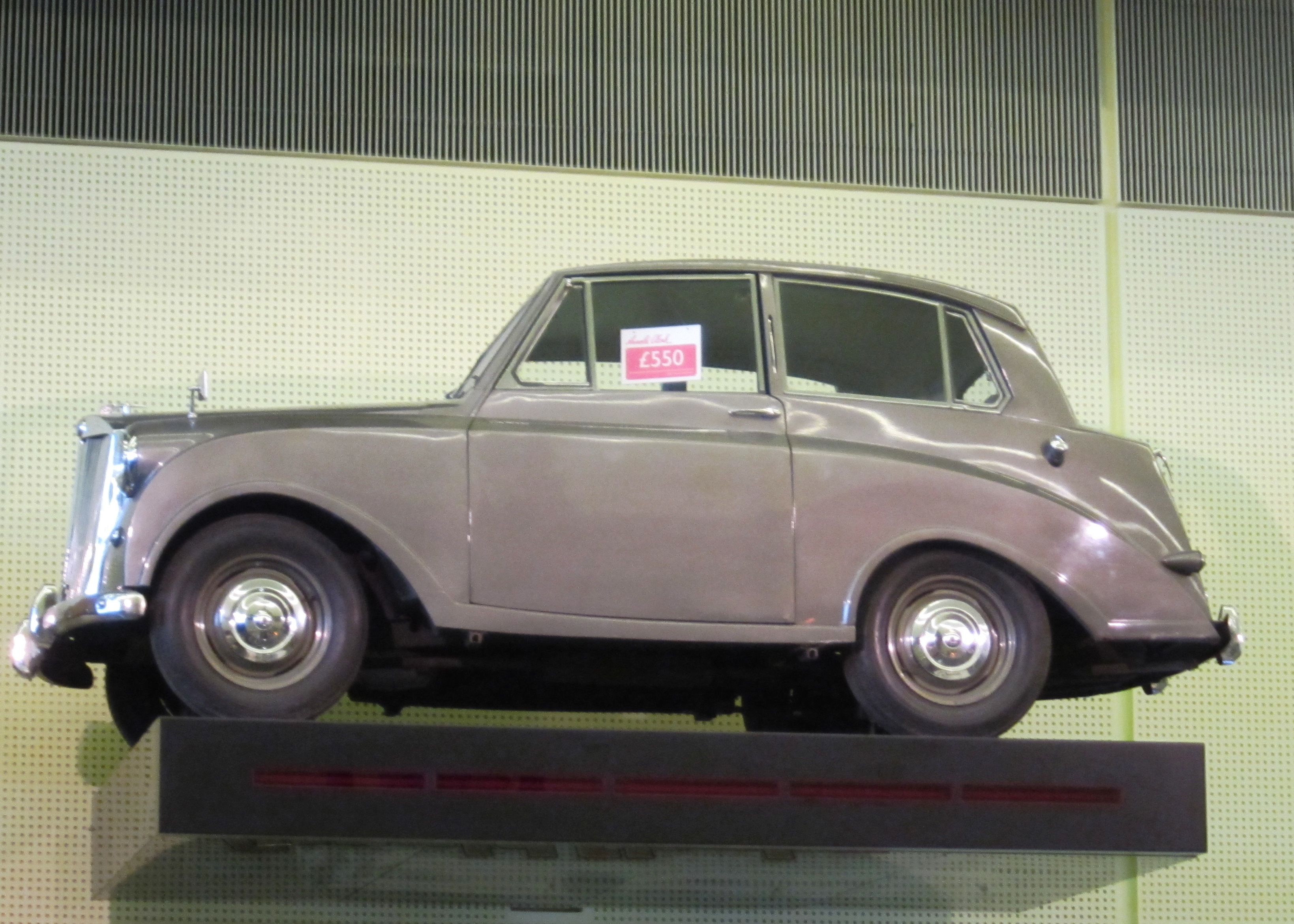 Triumph Mayflower at Glasgow Transport Museum